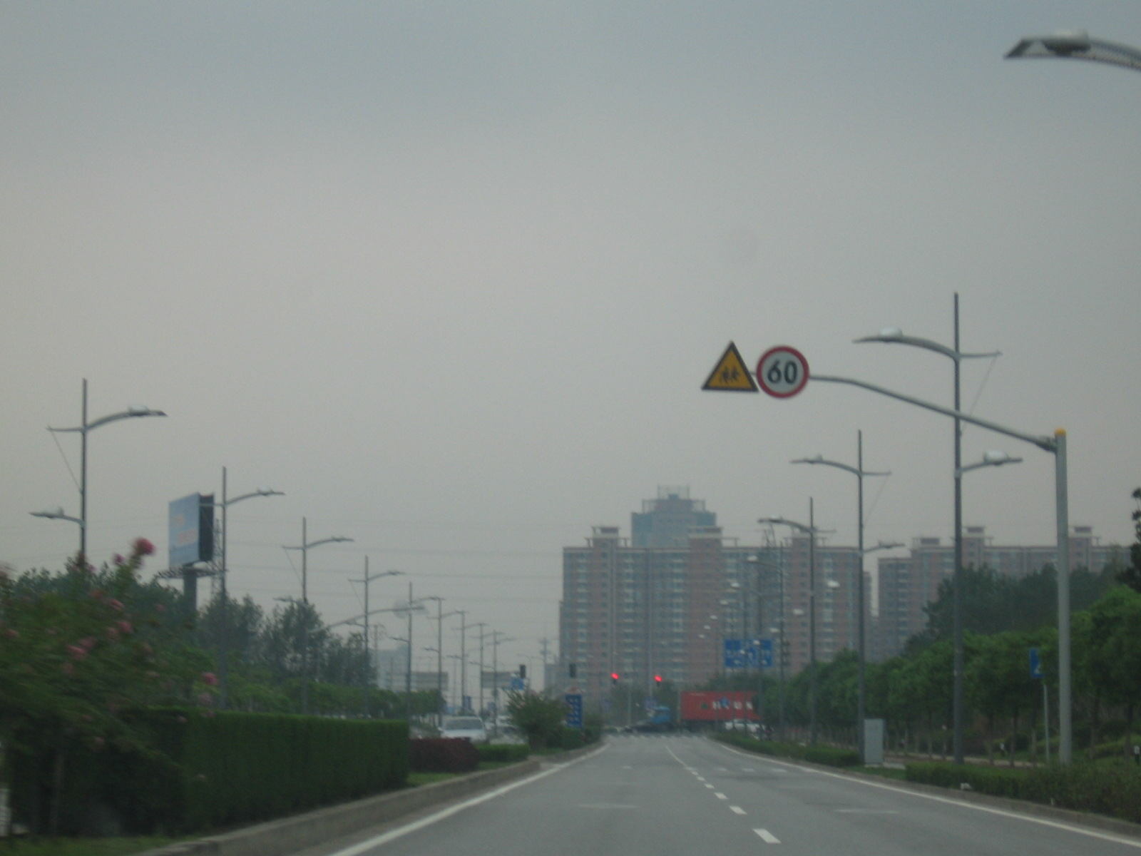 Place:South Songwei Road, Jinshan District, Shanghai, China It is a picture about the New Jinshan City which is seen on South Songwei Road, a main road of Jinshan District.